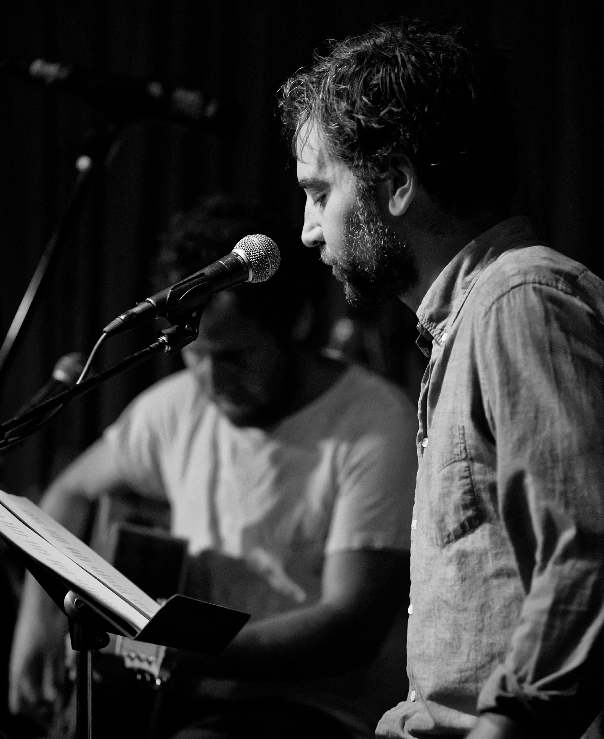 Love Songs for God and Women at the Hotel Cafe